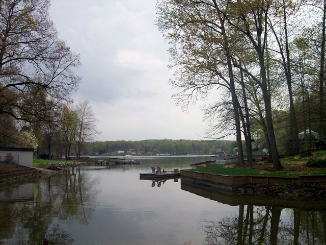 Description: Abbotts Creek, a section of High Rock Lake near Lexington, North Carolina. Source: Photo by Panda Brown. (Wife of User:Pharmboy)